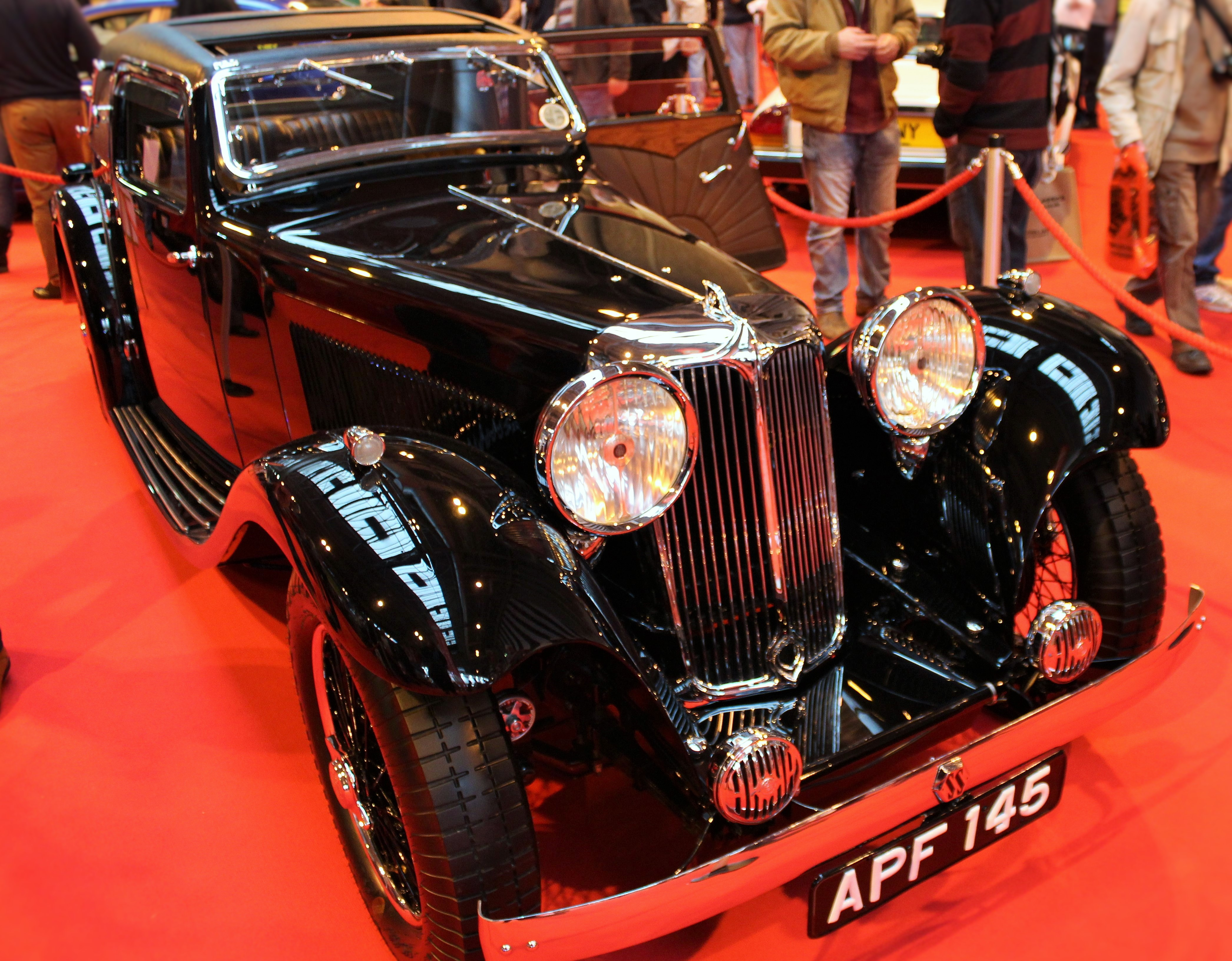 1933 SS One 16 HP fixed head coupé Birmingham NEC classic car show 2014